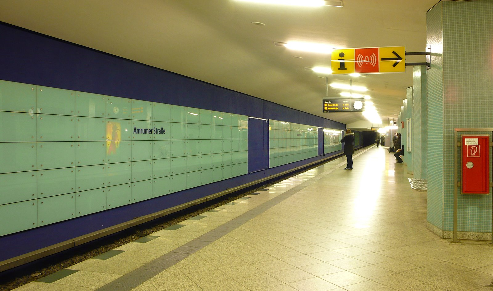 Amrumer Str. Subway Station Berlin